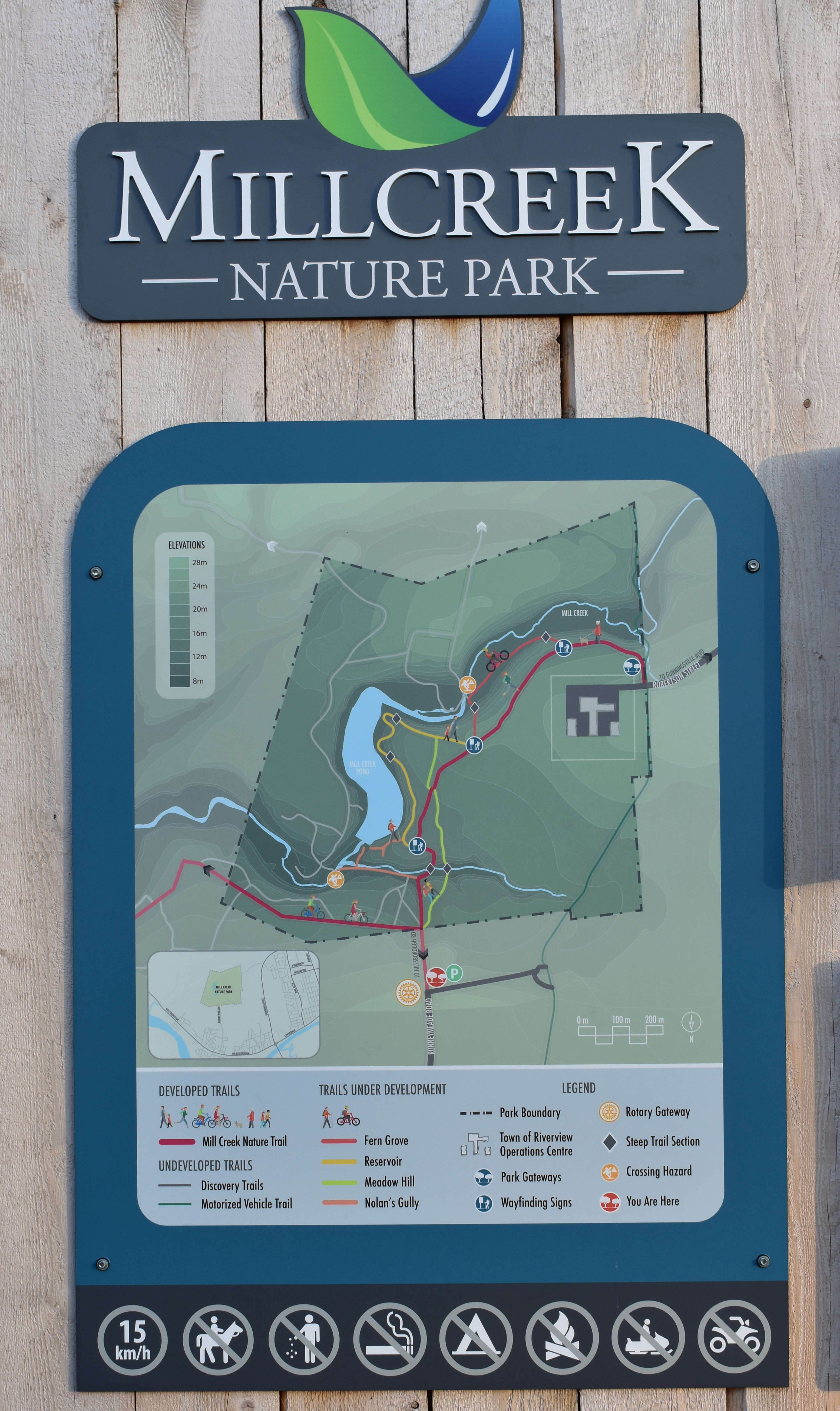 Sign at the Runneymeade entrance to the Mill Creek Nature Park in Riverview, New Brunswick, Canada.